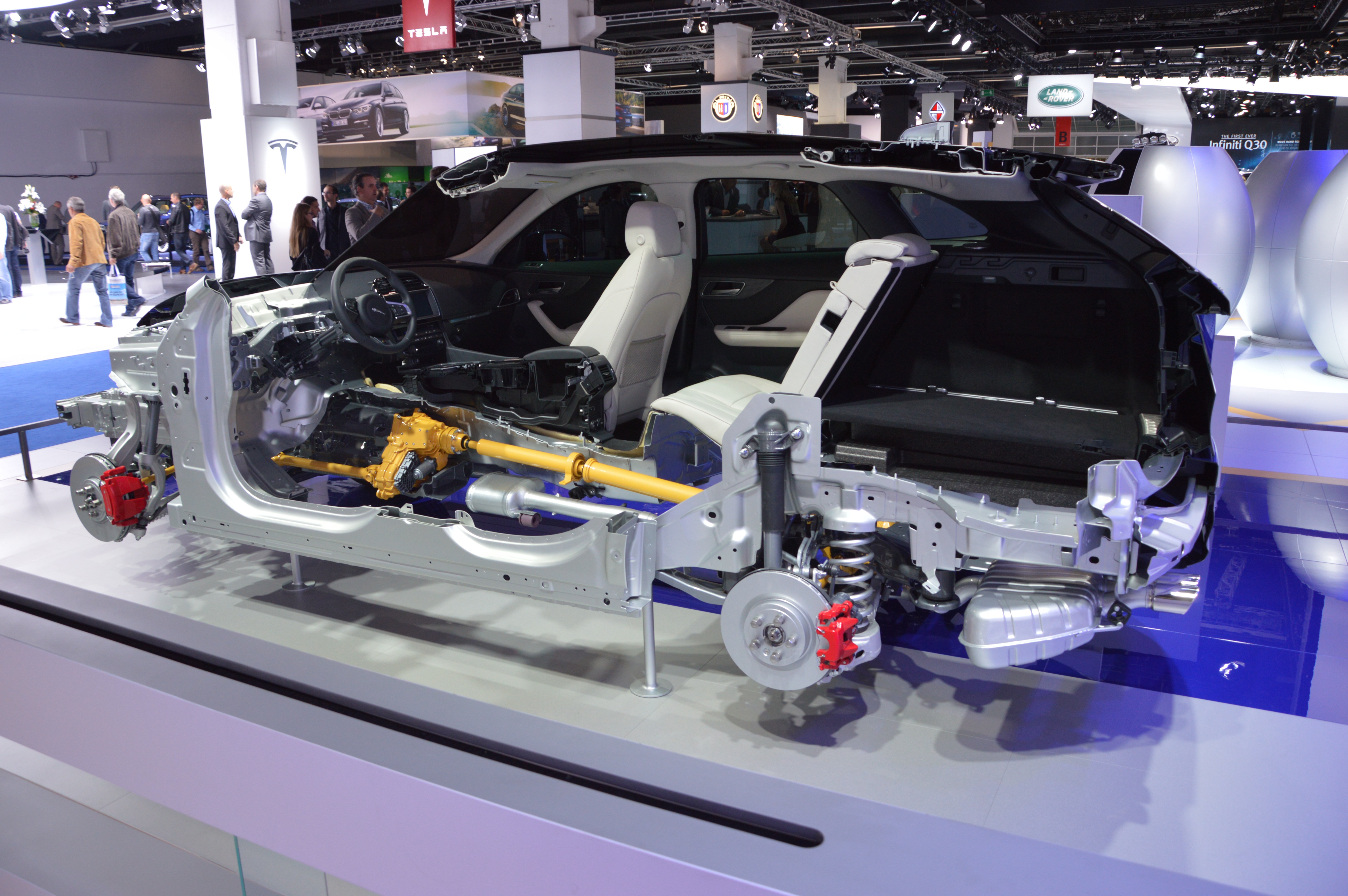 Cutaway of Jaguar F-Pace. Photo taken at exhibition IAA 2015 in Frankfurt, Germany.